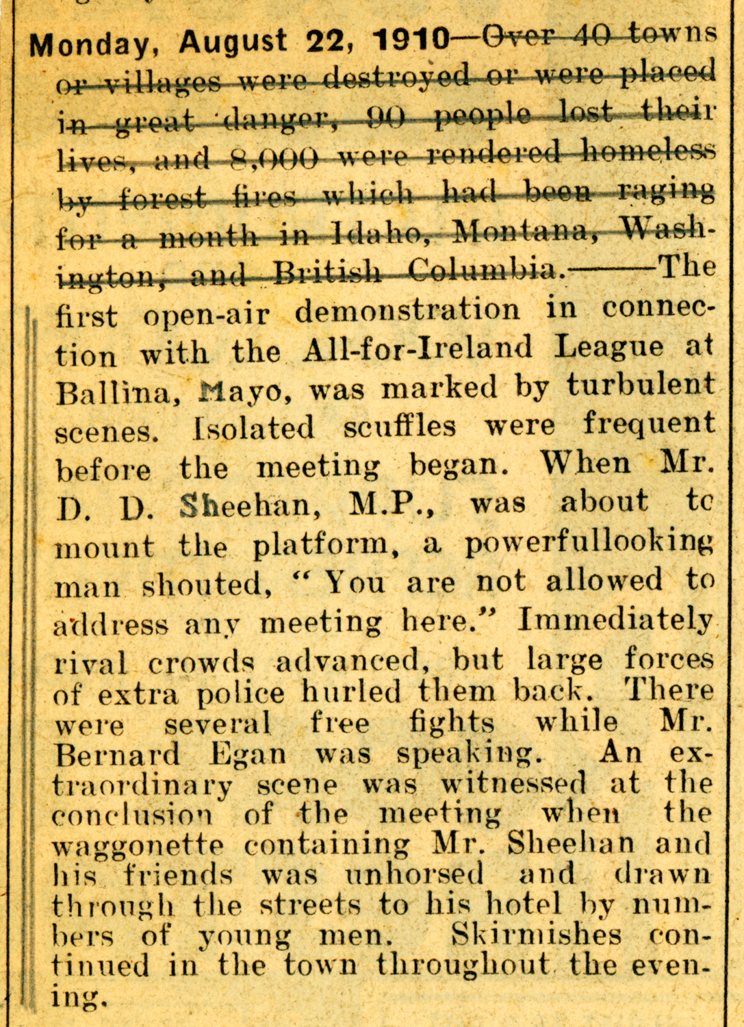 Description of turbulent scenes at Ballina Co. Mayo concerning D.D. Sheehan MP during an All-for-Ireland League demonstration in 1910.